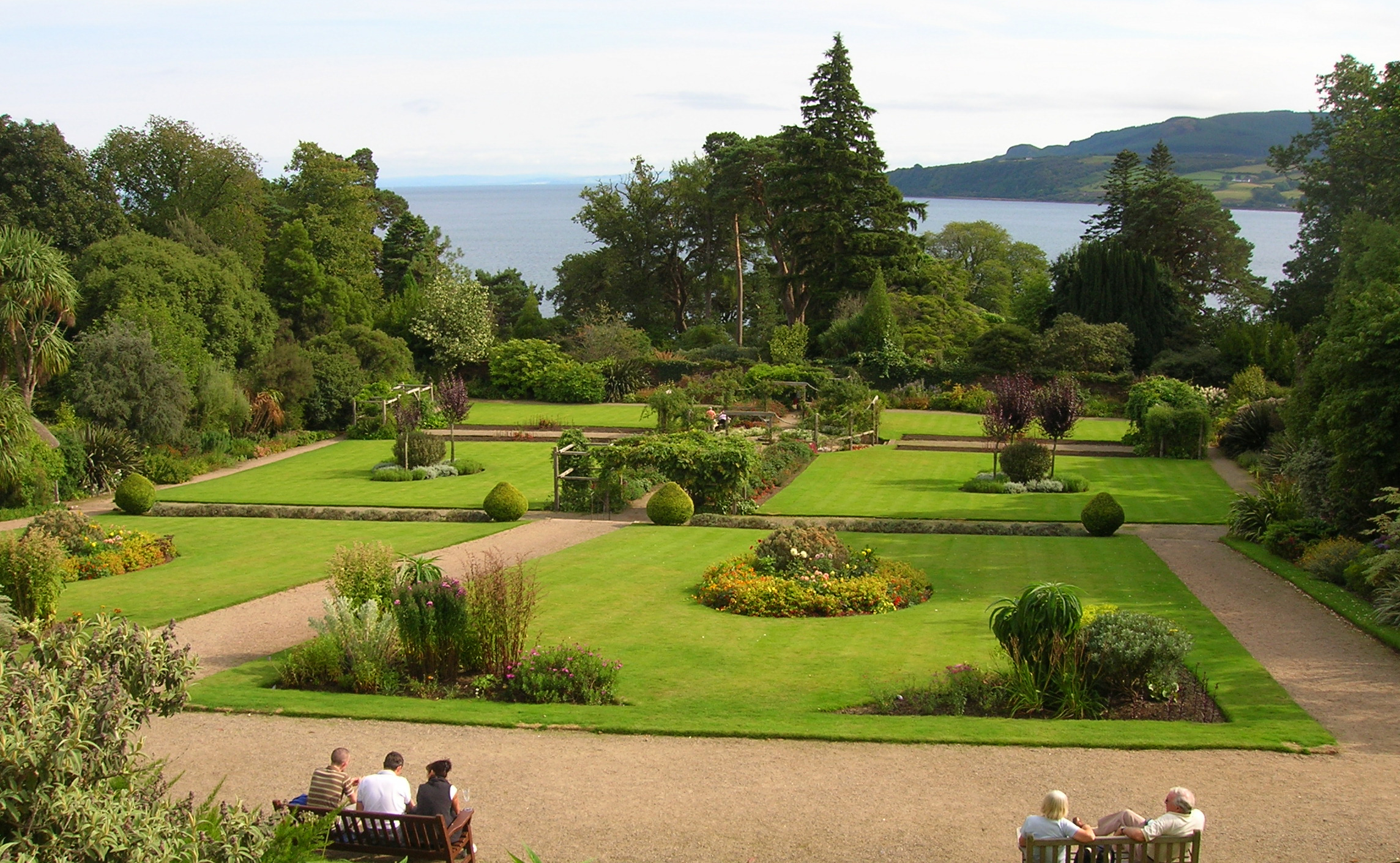 The Walled Garden of Brodick Castle